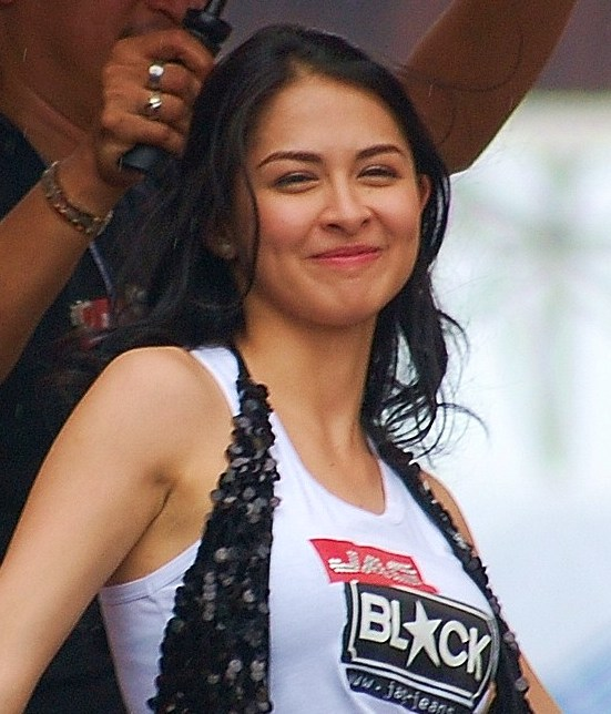 Marian Rivera attending the Sinulog Festival in Cebu last January 2009.